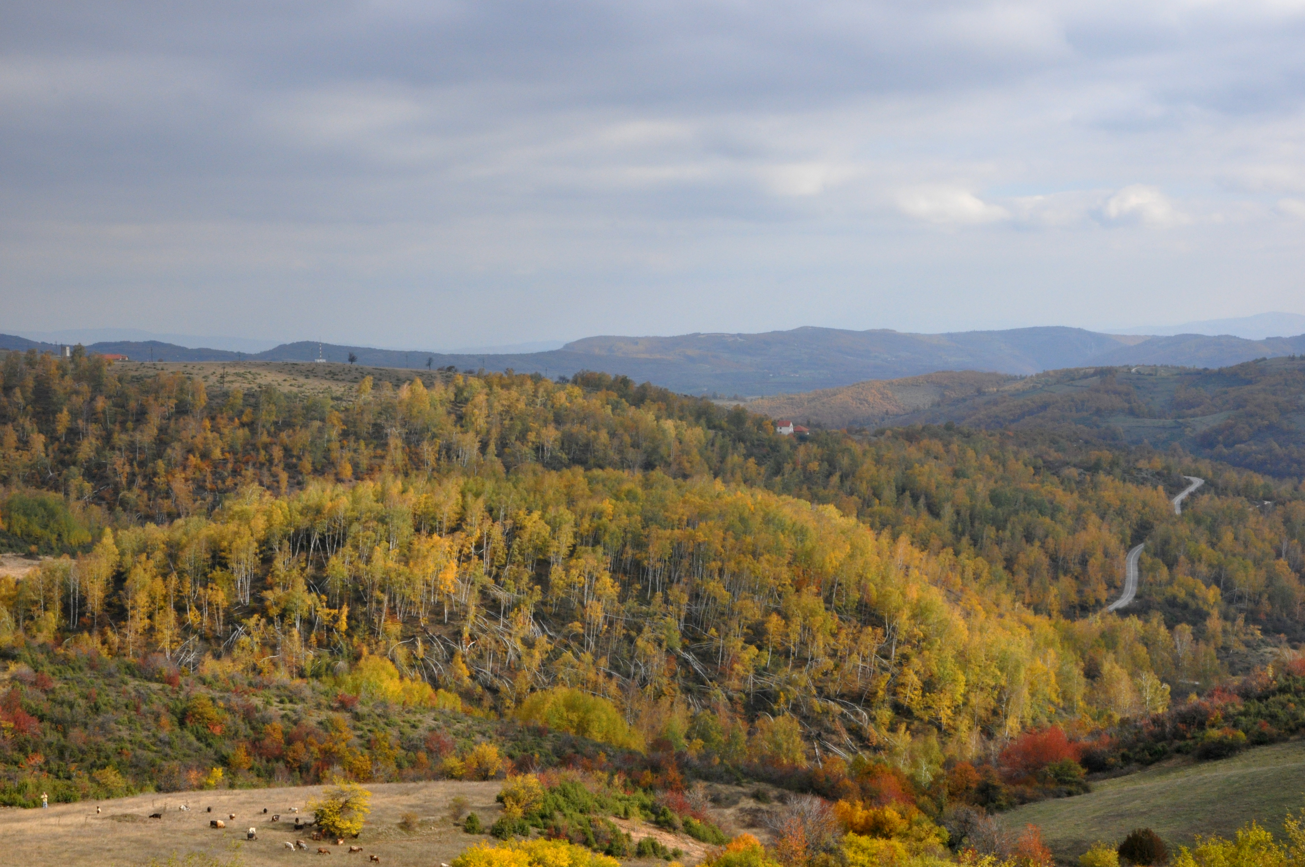 Novobërdë (1)